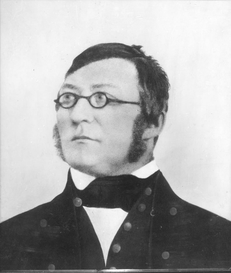 Henrik Wergeland daguerreotype 1842 by O. F. Knudsen. According to sister Camilla, the only portrait of him with a good likeness. (Odd Arvid Storsveen: En bedre vår Bd. I. Oslo 2004 S. 8)